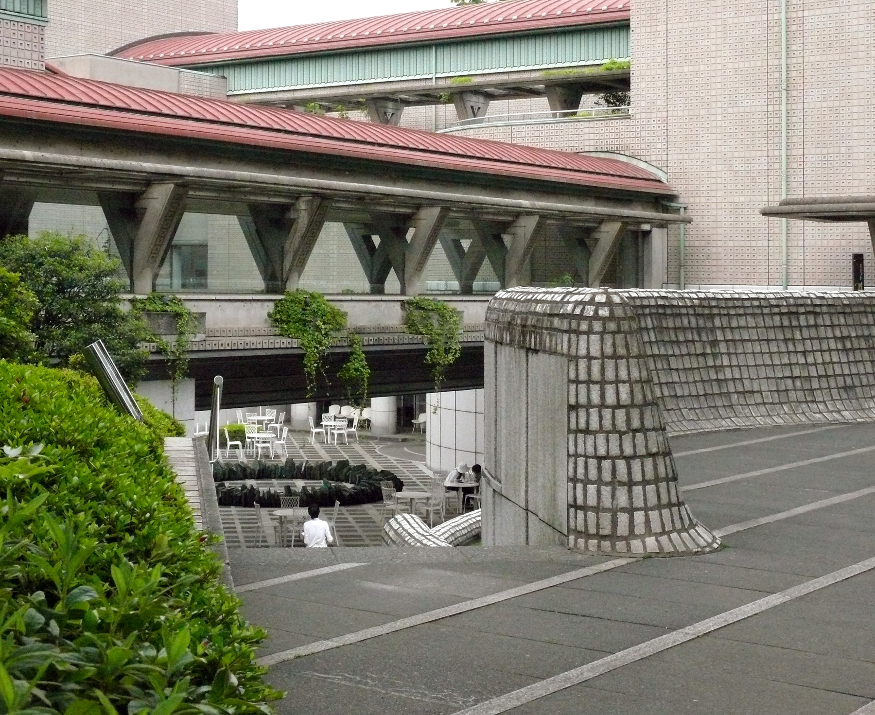 Setagaya Art Museum/世田谷美術館 Architect:Shozo Uchii/内井昭蔵